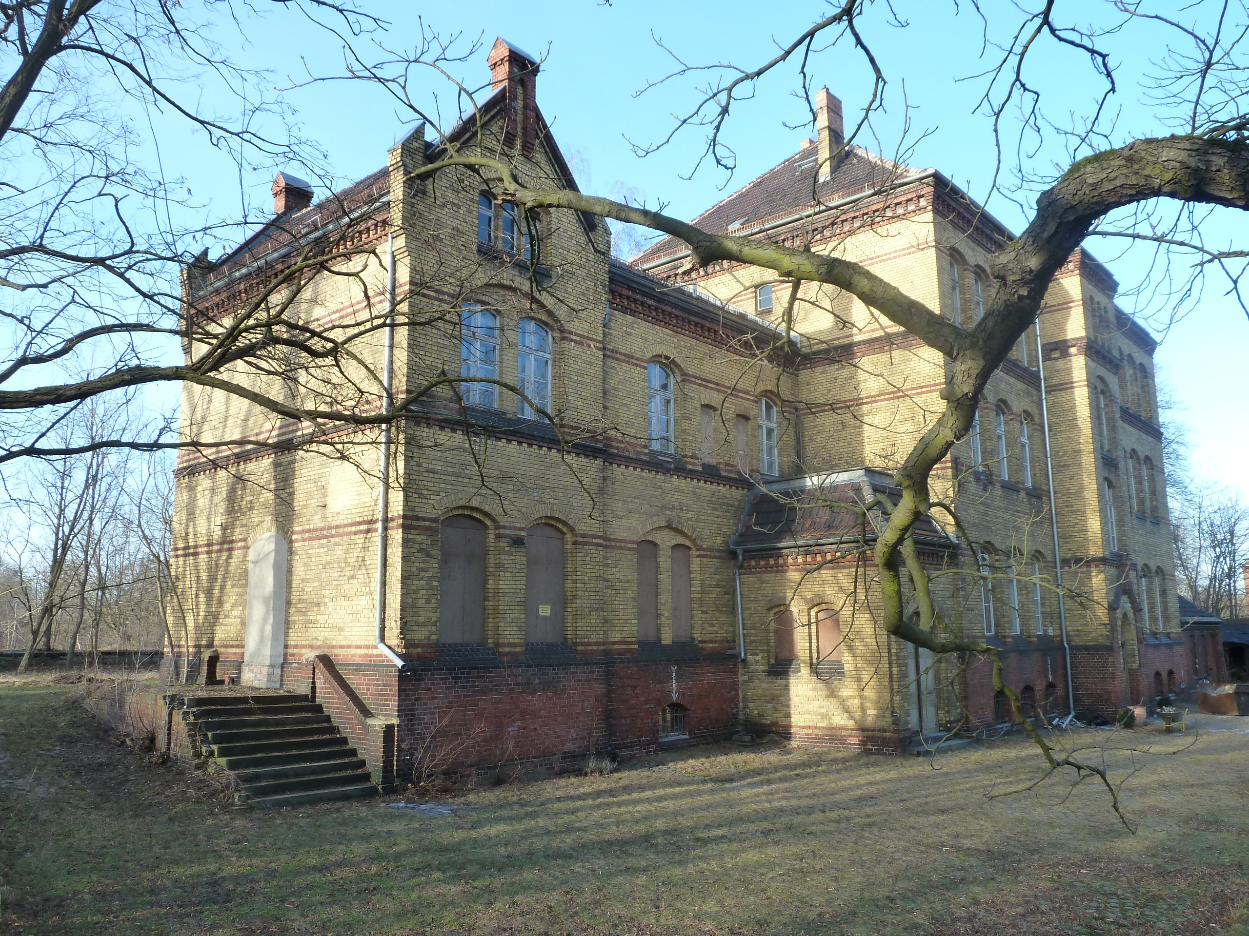 Jüterbog, military station. Cultural heritage.